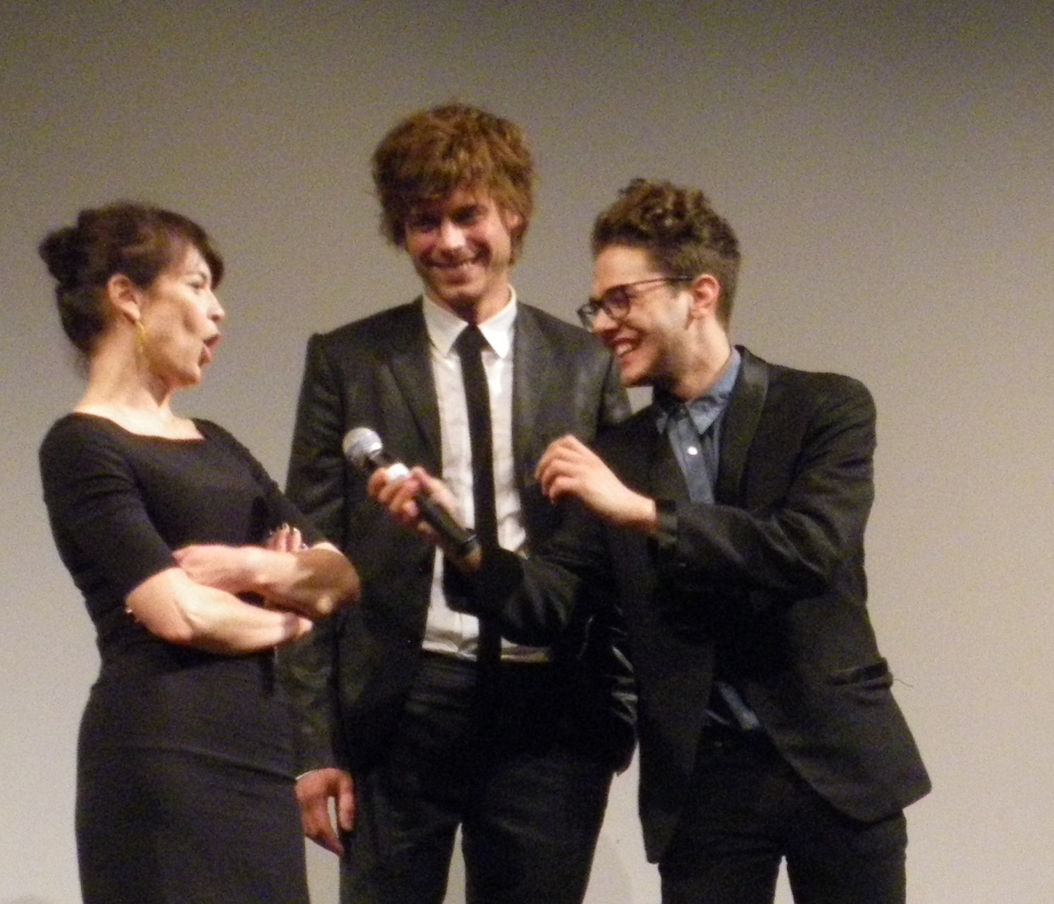 Principal cast of J'ai tué ma mère, at the Isabel Bader Theatre for the 2009 Toronto International Film Festival. The film was subsequently included in Canada's Top Ten for the year. From left to right, Anne Dorval, François Arnaud, and Xavier Dolan.